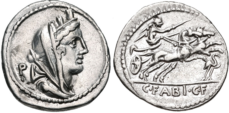 C. Fabius C.f. Hadrianus. 102 BC. AR Denarius (19mm, 3.82 g, 9h). Rome mint. Veiled and turreted bust of Cybele right; P/• behind / Victory driving galloping biga right, holding reins and goad; below, stork standing right. Crawford 322/1a; Sydenham 589; Fabia 15. VF, a few light scratches.